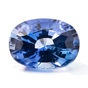 Sapphire oval, untreated, Sri Lanka 2.25cts